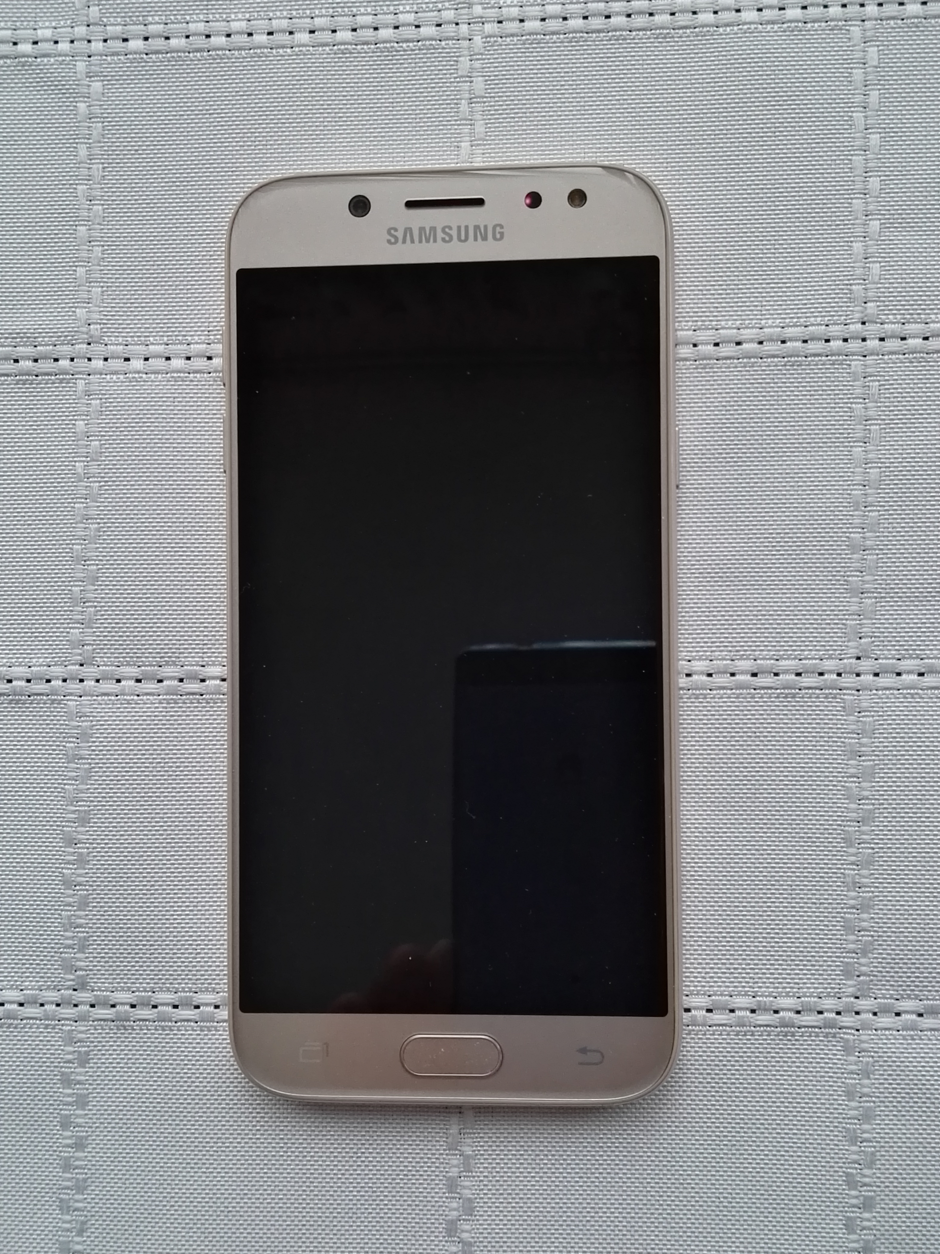 Front view of Samsung J5 2017 (gold).